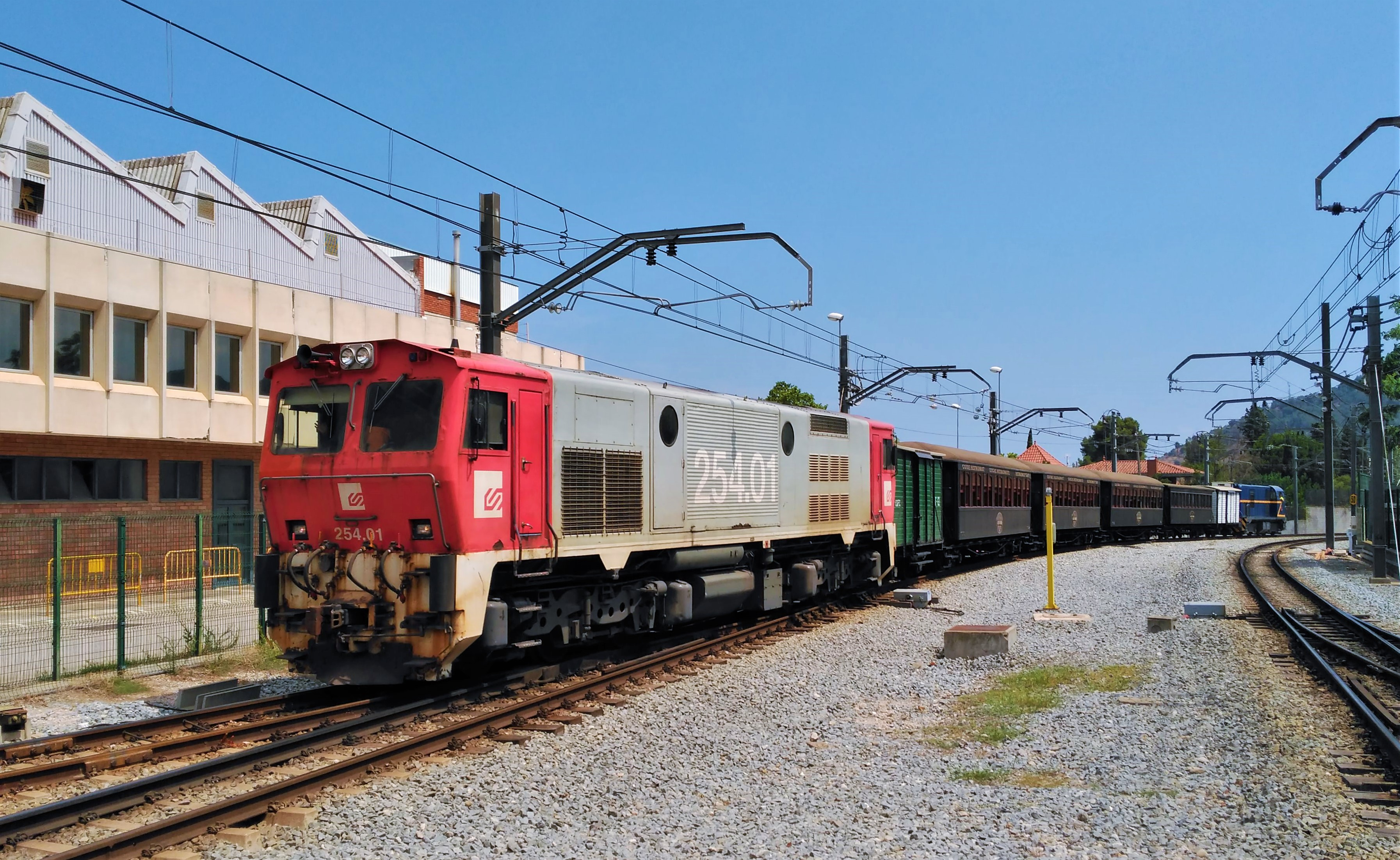 After the first commercial circulation of the tourist train Montserrat Classic Express of Ferrocarrils de la Generalitat de Catalunya, the train returns to Martorell Enllaç to be cleaned and stored. It is towed by locomotive 254.01, with the heritage locomotive 1003 in tail.